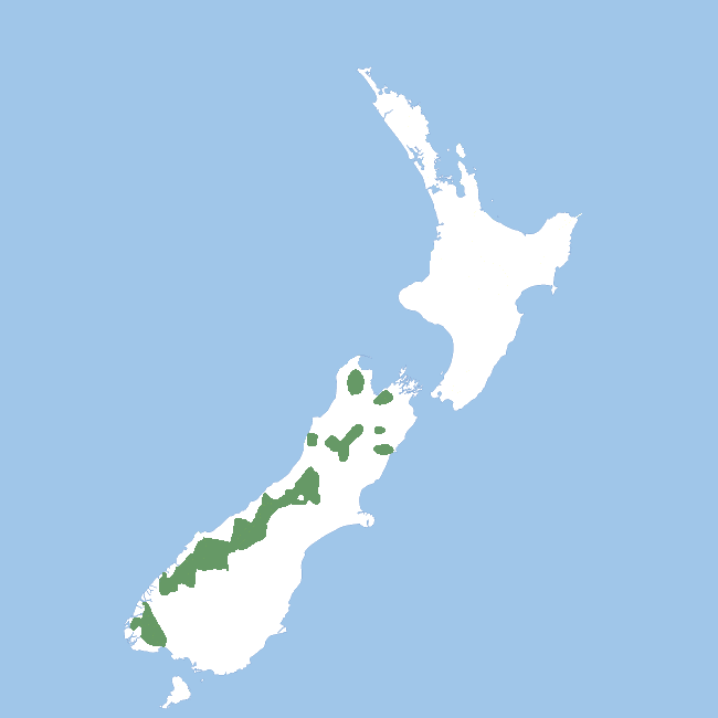 Current distribution of the Kea - entirely in New Zealand